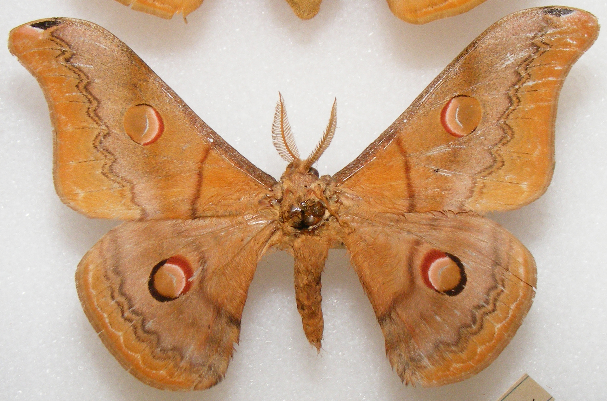 Caligula cachara adult male from the Texas A&M University Insect Collection